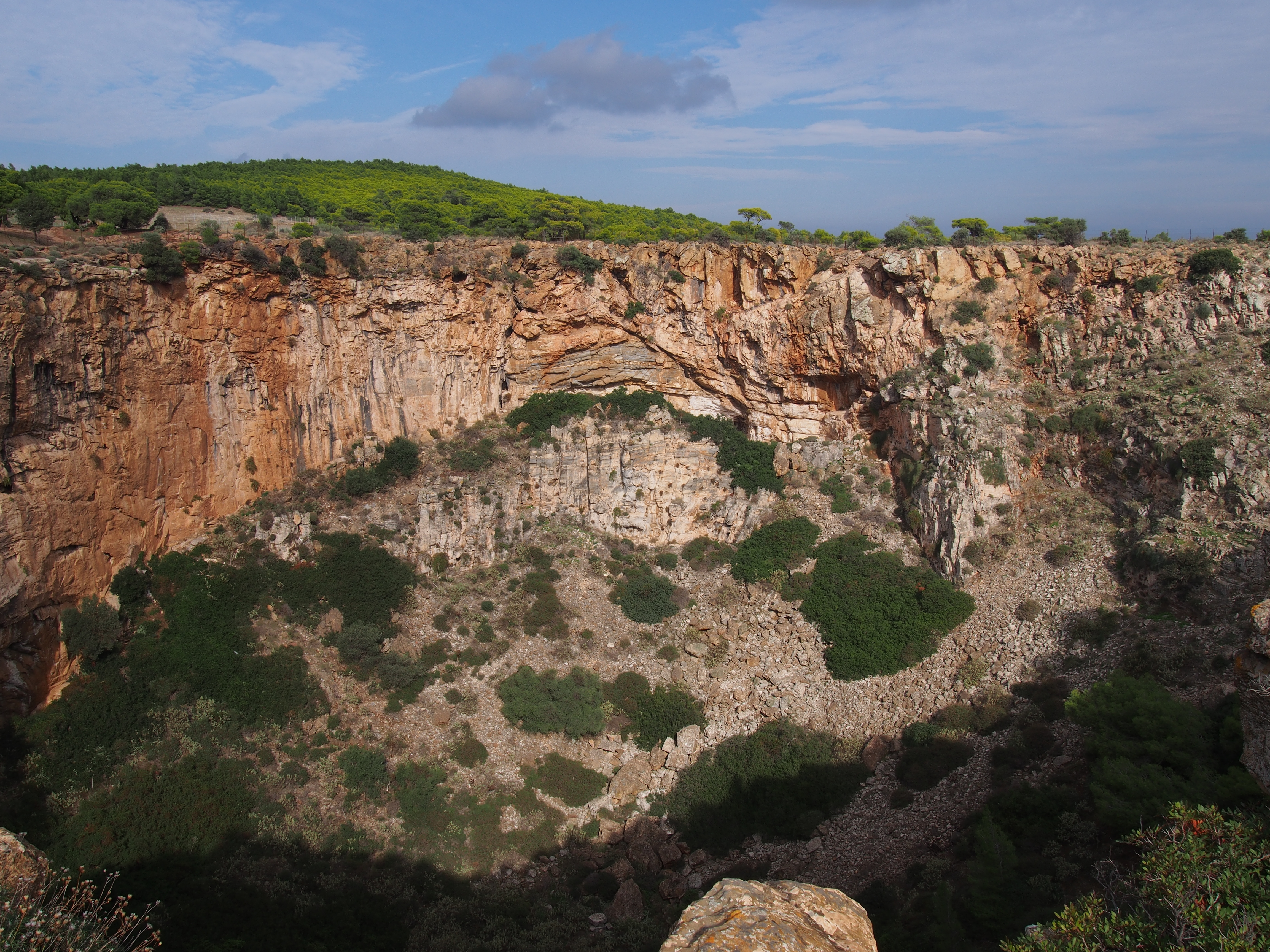 Chaos sinkhole, near Agios Konstantinos, South Attica. It is located within Sounio National Forest and measures 120 m across and 55 m in depth.